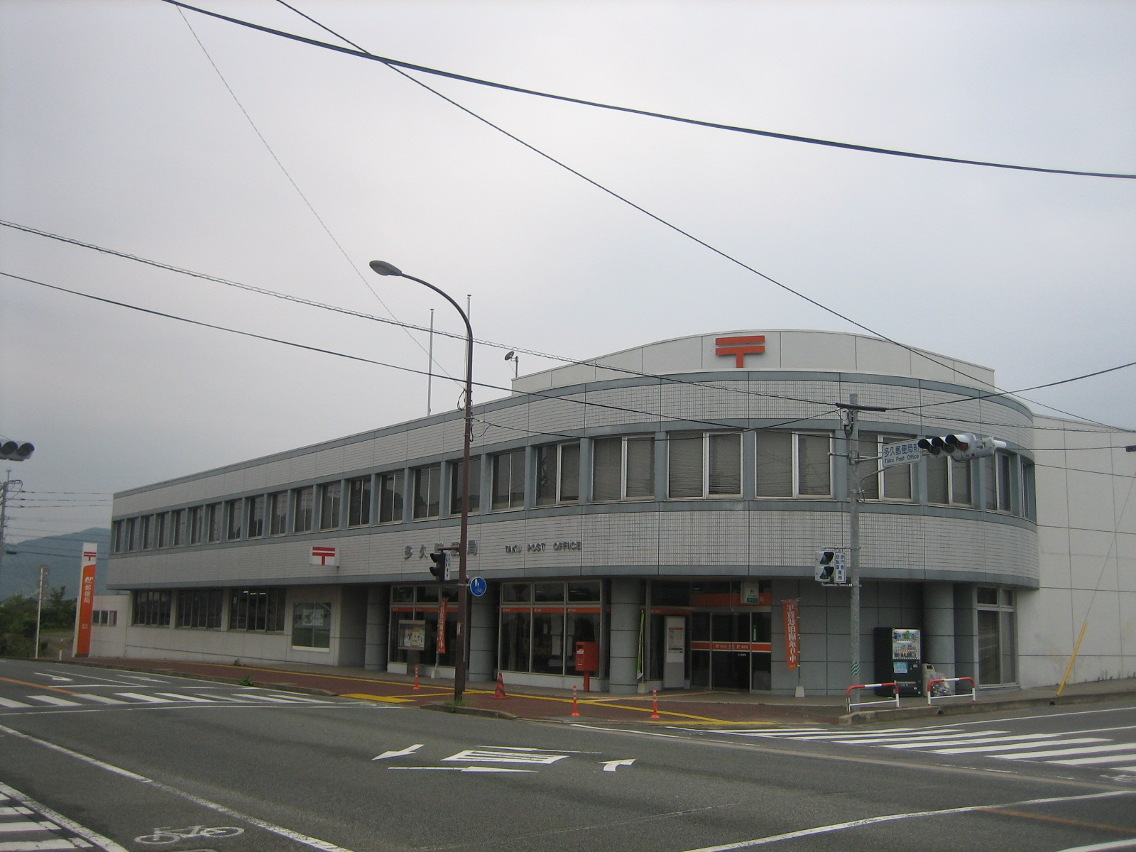 Taku post office in Saga, Japan